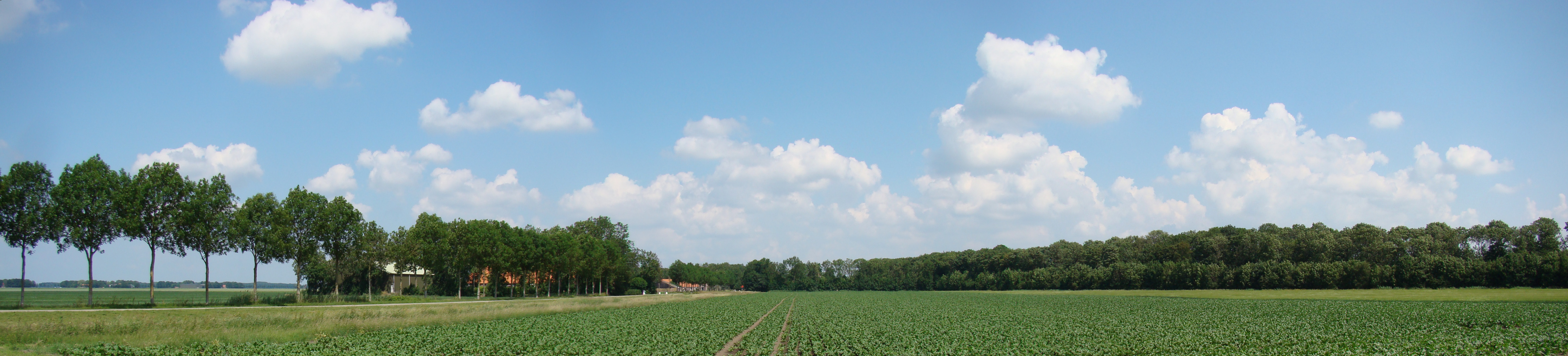 Impressions of Schokland